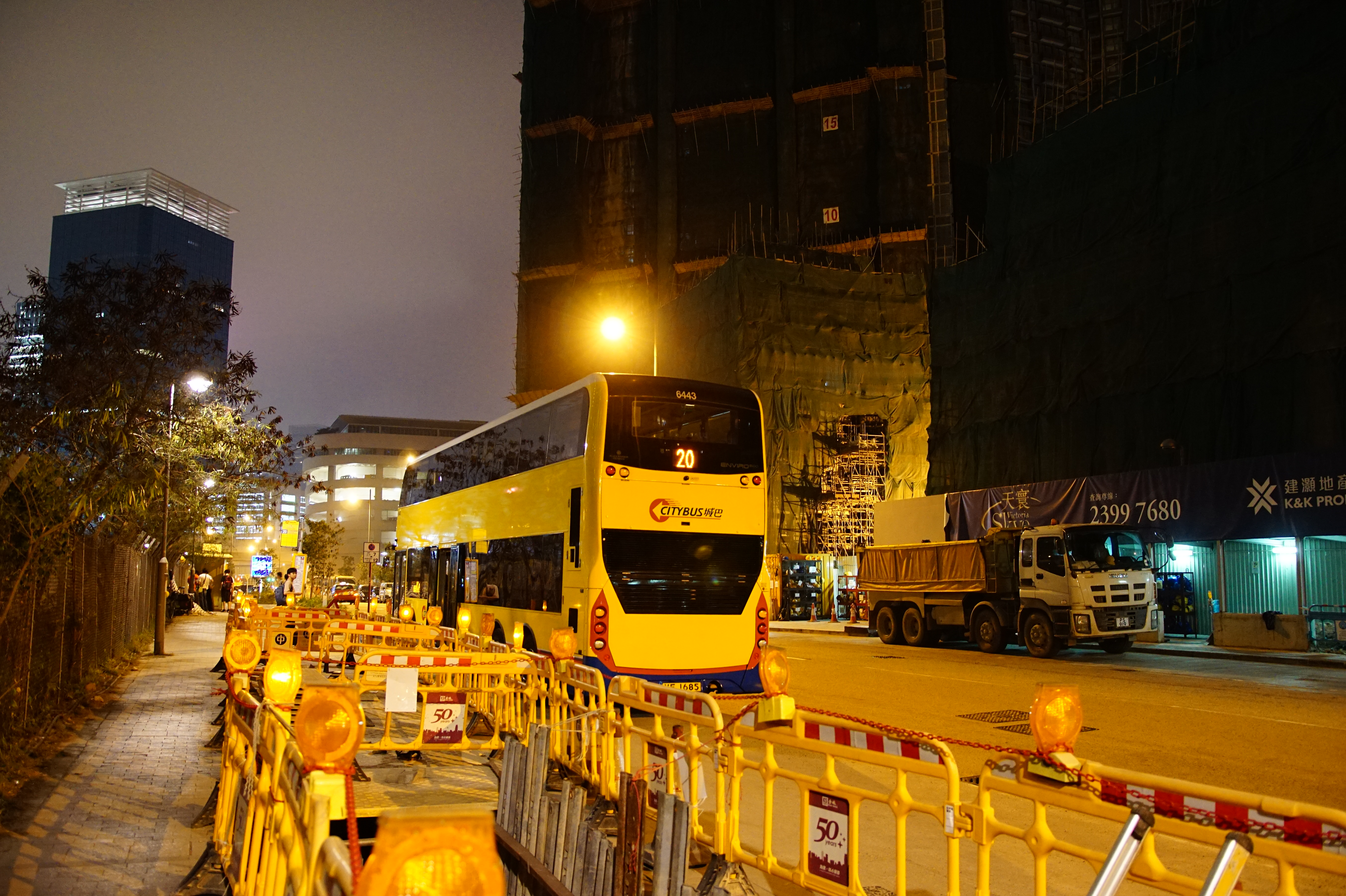 Muk On Streeet, Kai Tak, the temporary bus terminus of Citybus Route 20